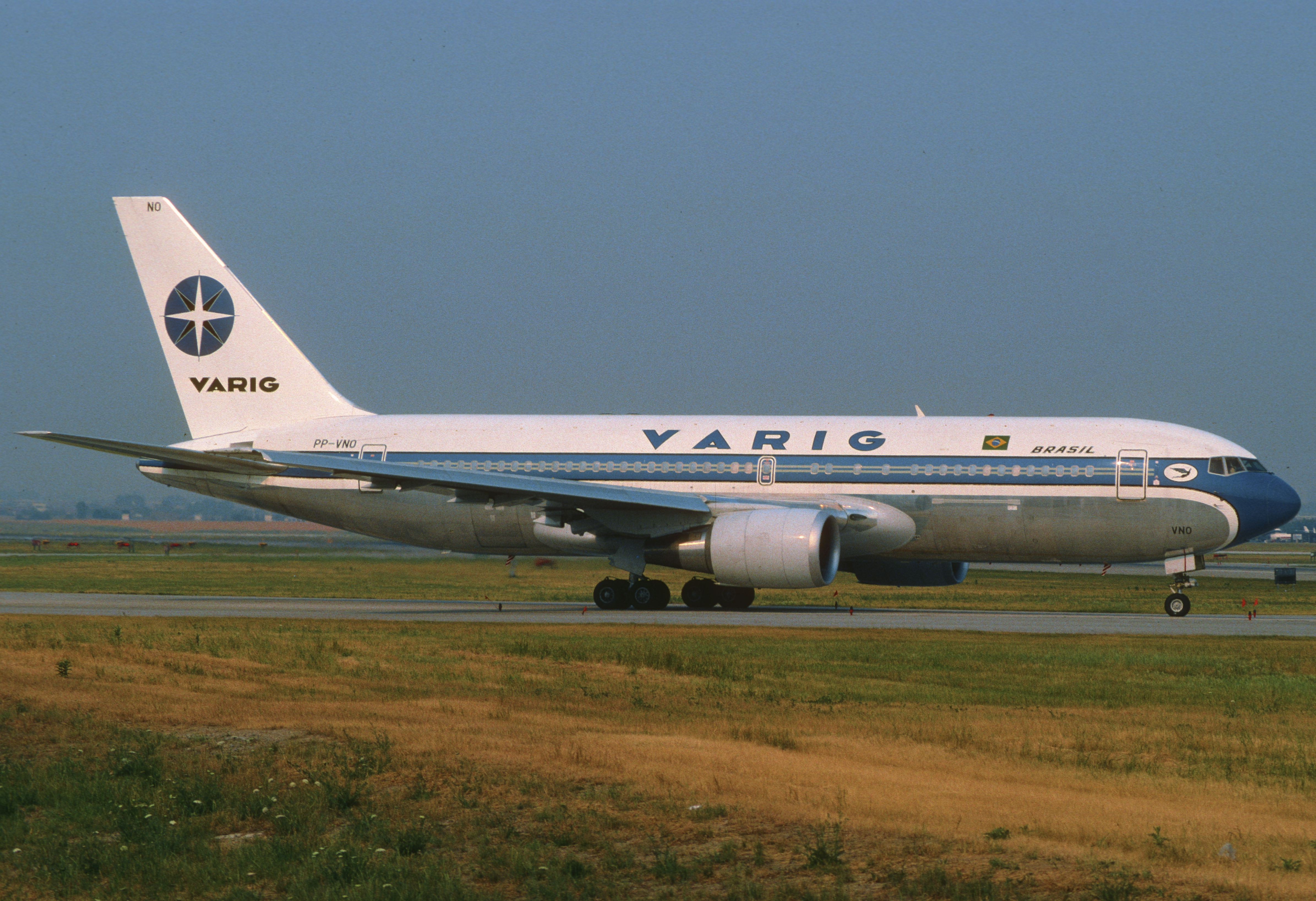 This Boeing 767-241ER took its first flight on April 20, 1987... 02/07/1987 Varig PP-VNO 09/01/2005 TAMPA N769QT converted to Freighter